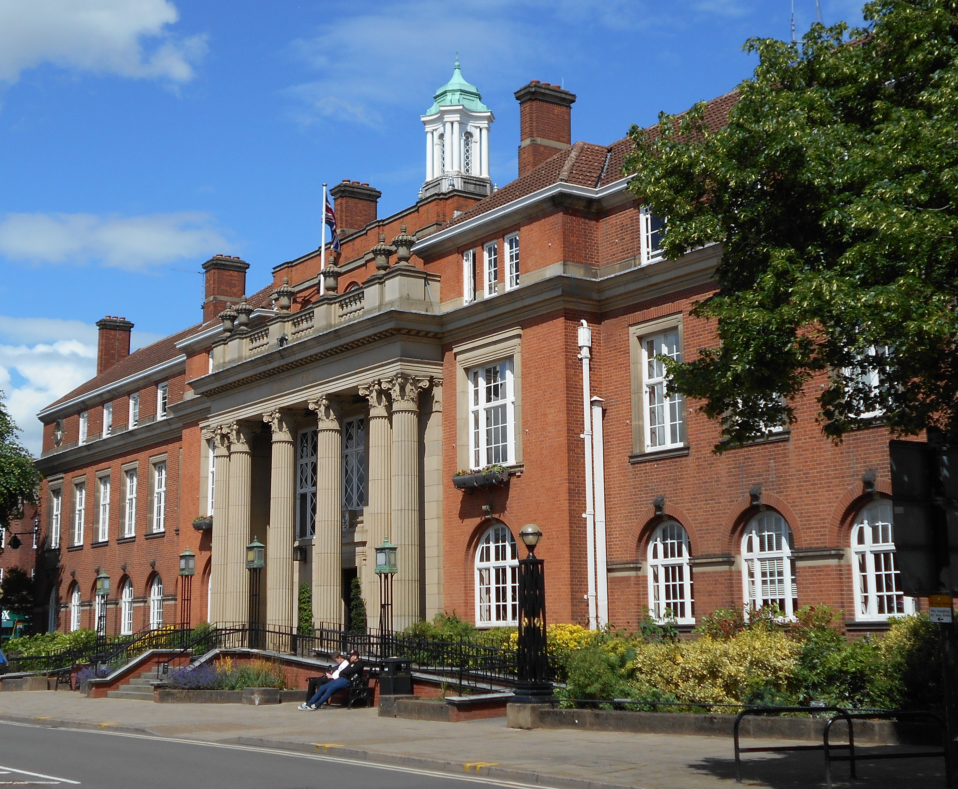 Nuneaton Town Hall